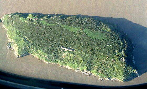 Steep Holm from the southeast